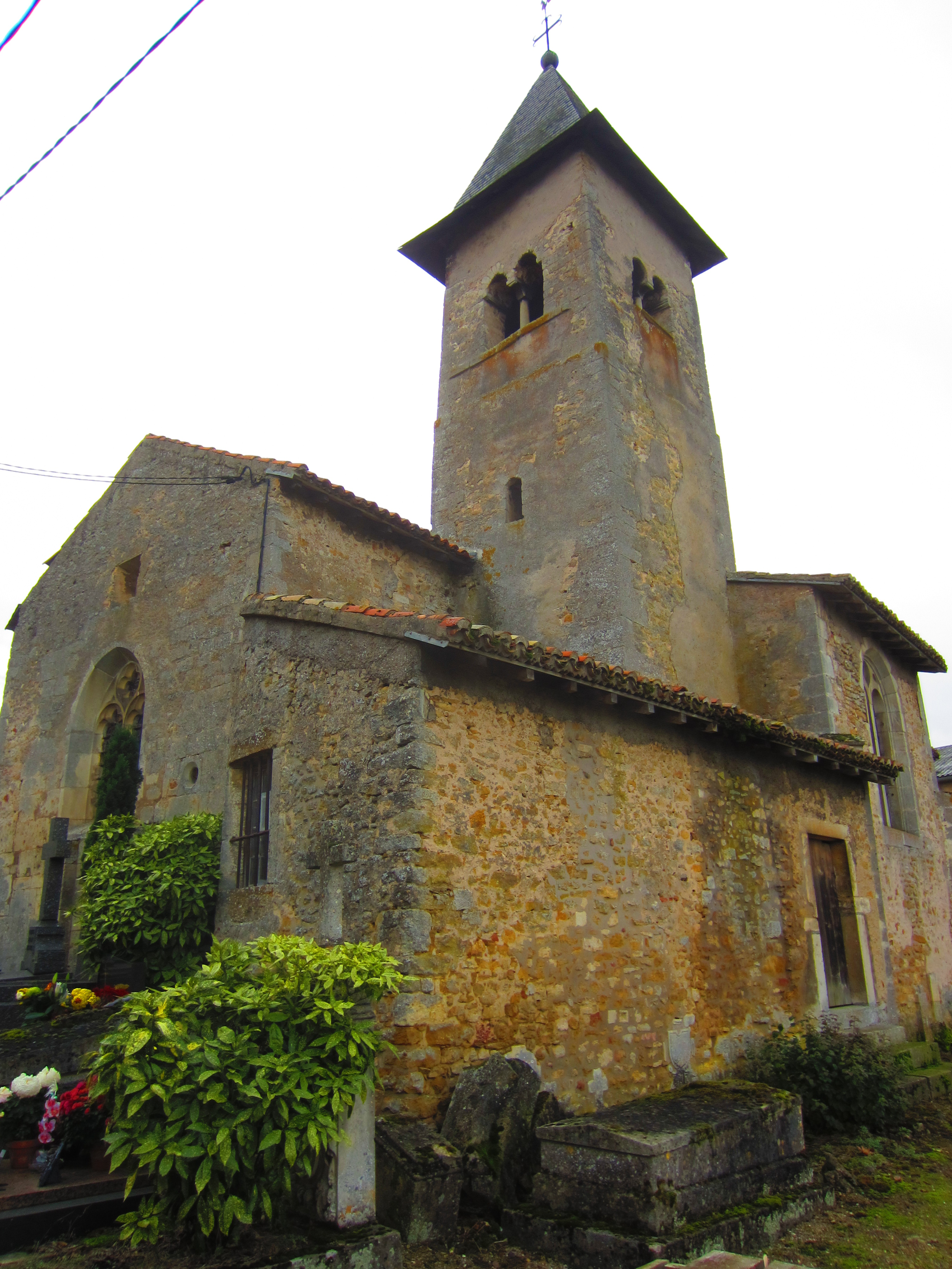 Morey church